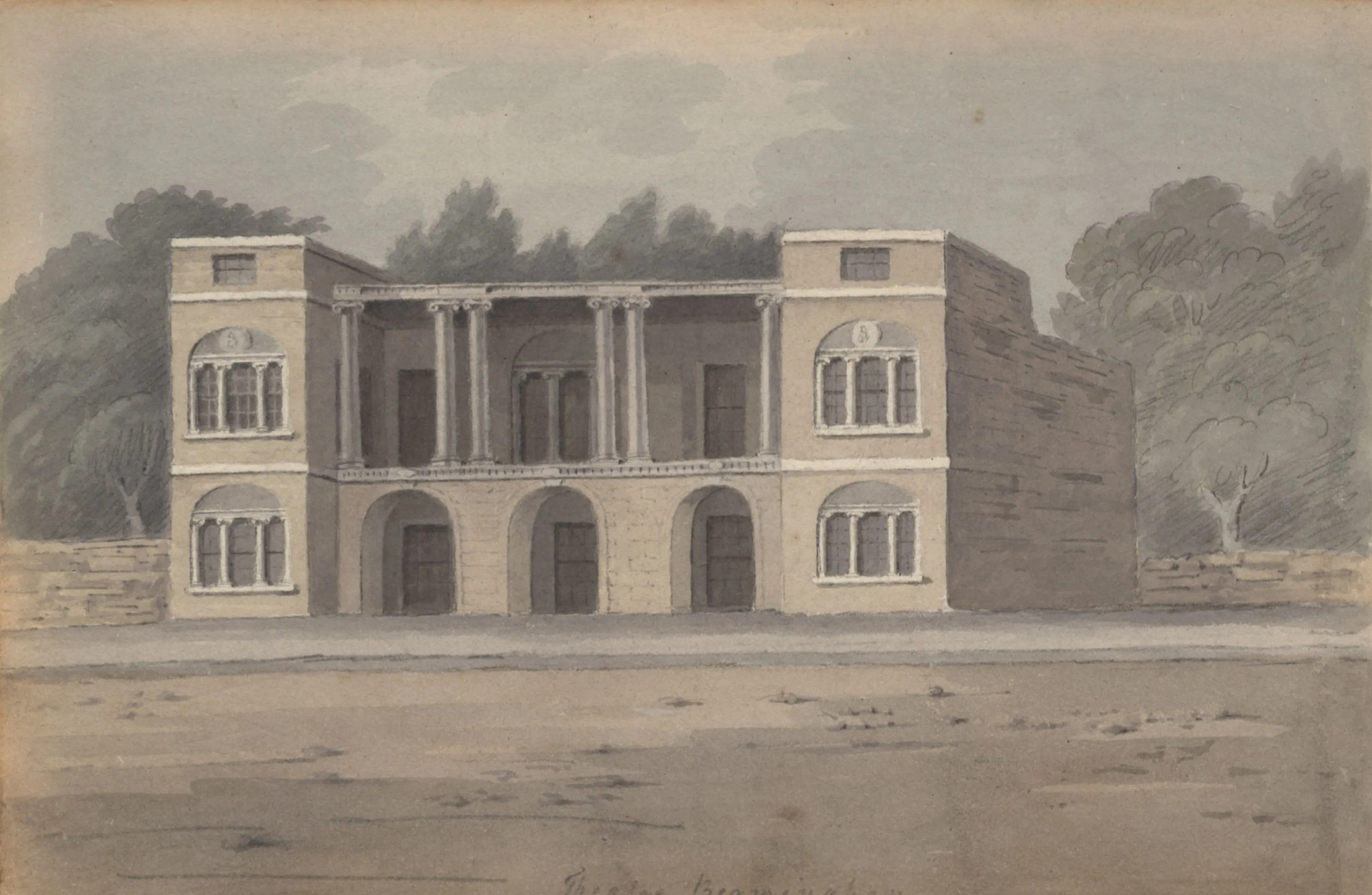 Cropped version of Theatre Royal, Birmingham, England.